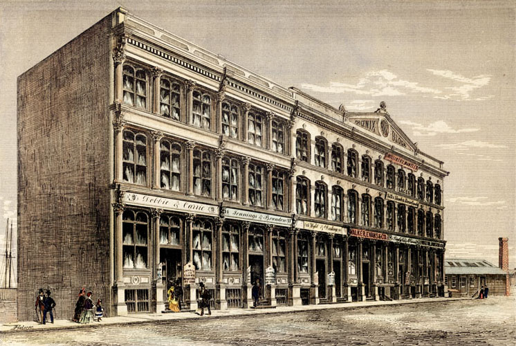 Front Street West, looking west from Yonge Street. Toronto, Canada. Canadian Illustrated News.